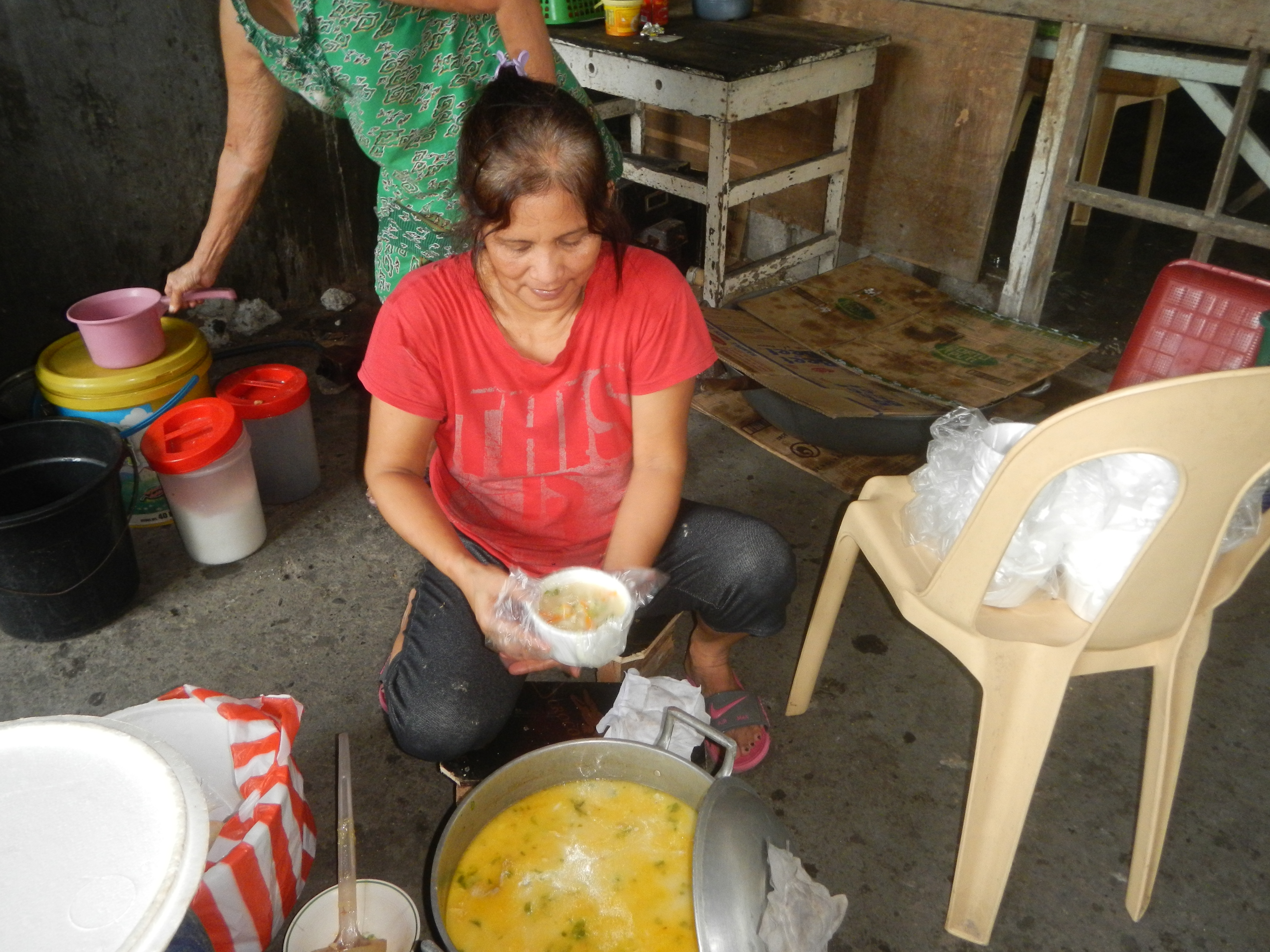 Suman (food) Suman sa Lihiya Tamale Filipino Tamales Sopas Chicken soup Menudo photos taken in Barangay Poblacion 14°57'17"N 120°54'2"E Baliuag, Bulacan, Bulacan province (Note: Judge Florentino Floro, the owner, to repeat, Donor Florentino Floro of all these photos hereby donate gratuitously, freely and unconditionally all these photos to and for Wikimedia Commons, exclusively, for public use of the public domain, and again without any condition whatsoever).